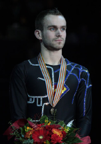 Kevin VAN DER PERREN on the podium at the 2009 European Figure Skating Championships